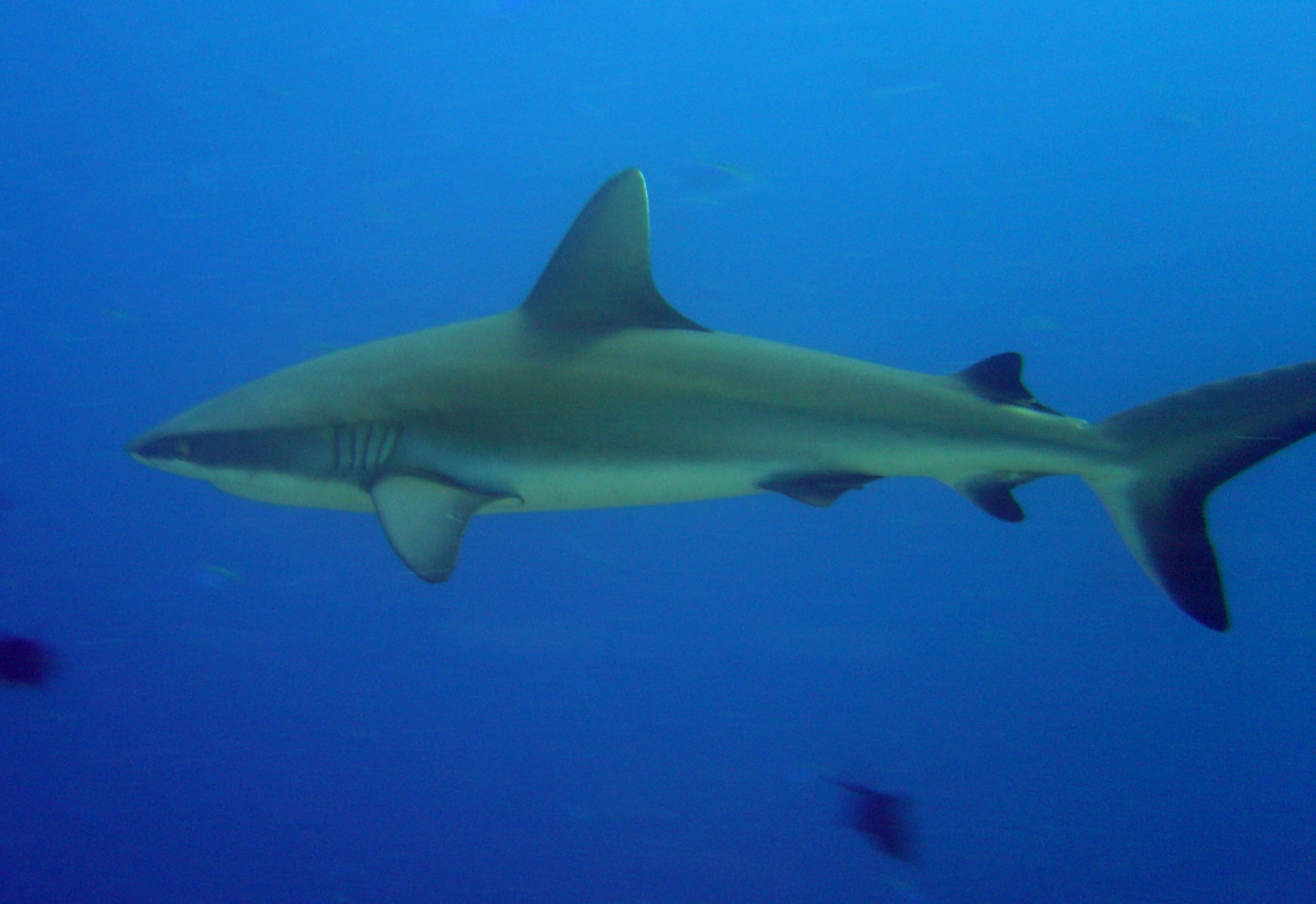 Grey reef shark (Carcharhinus amblyrhynchos) off Palau.